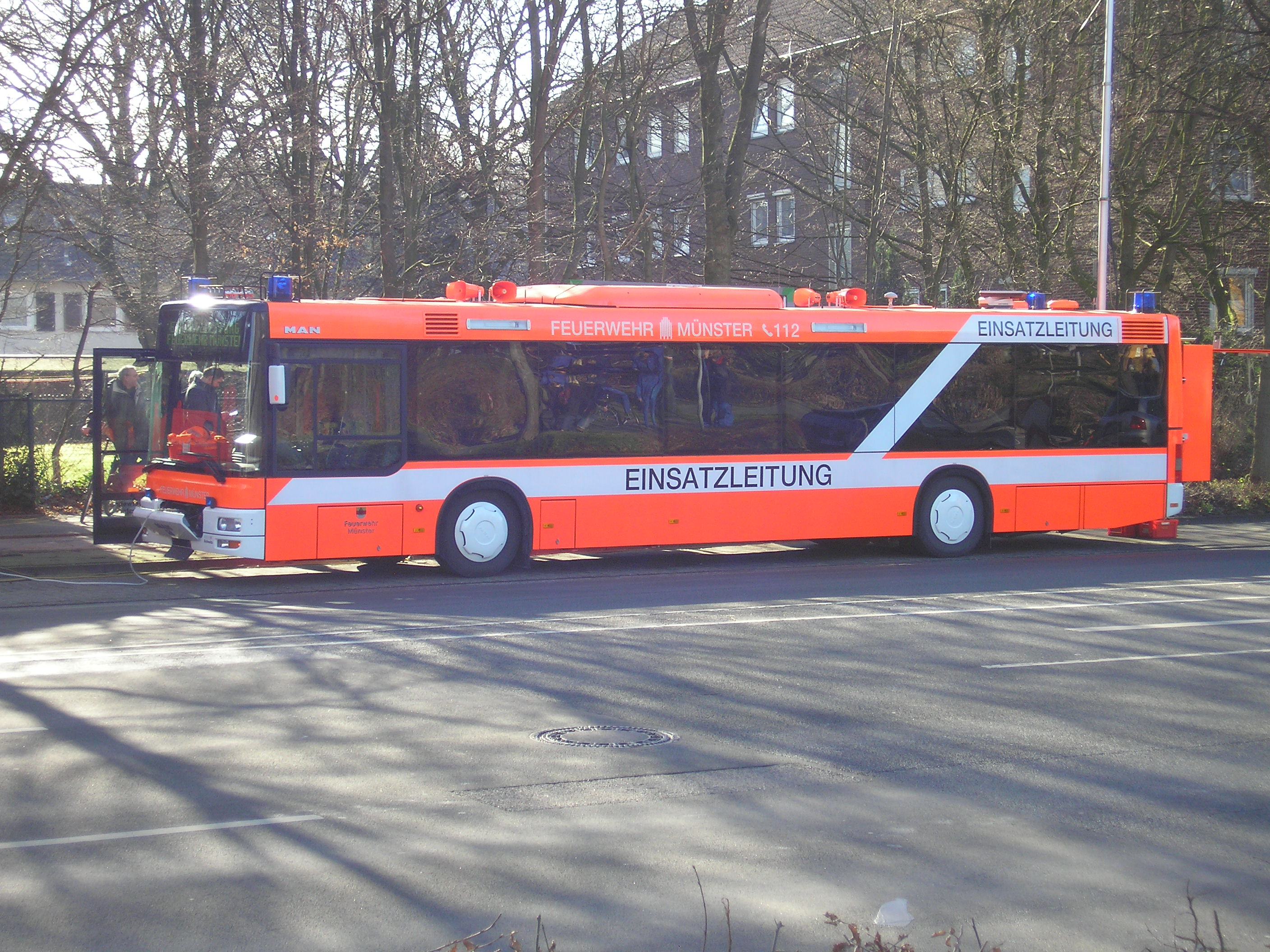 An operations control vehicle of the Feuerwehr Münster, Germany.